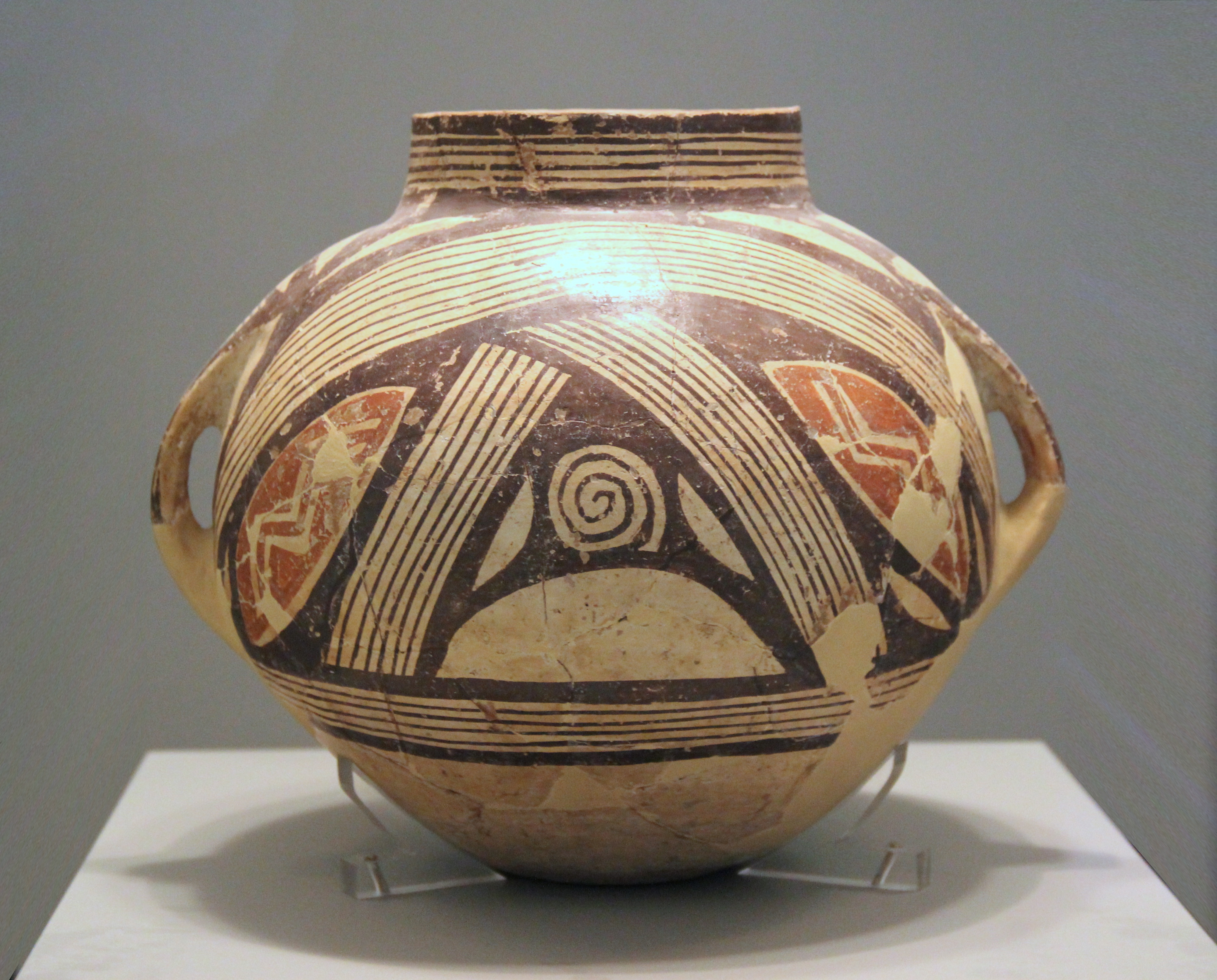 Greek Prehistory Gallery, National Museum of Archaeology, Athens, Greece. Complete indexed photo collection at .